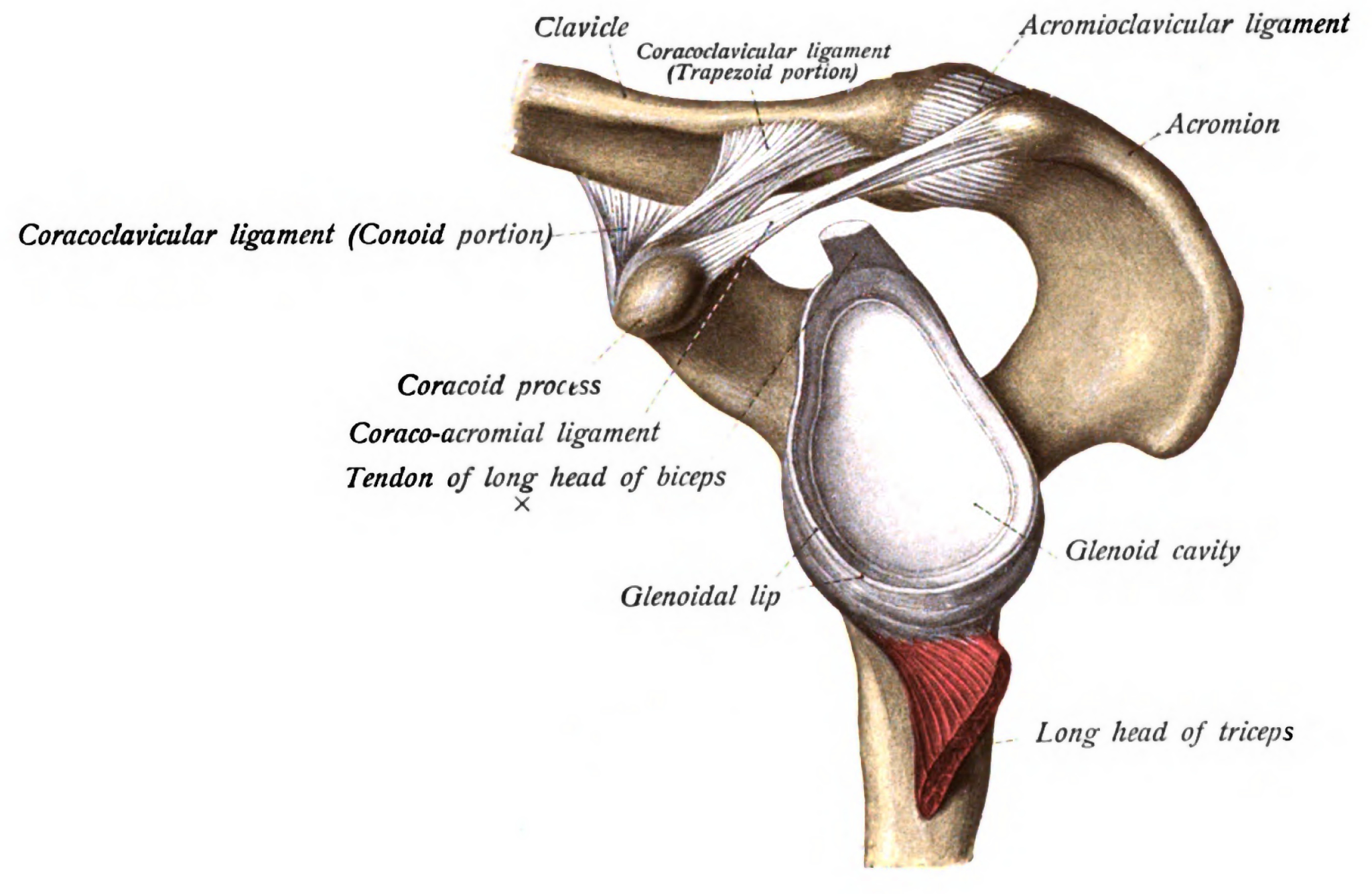 An anatomical illustration from the 1909 edition of Sobotta's Atlas and Text-book of Human Anatomy with English terminology.